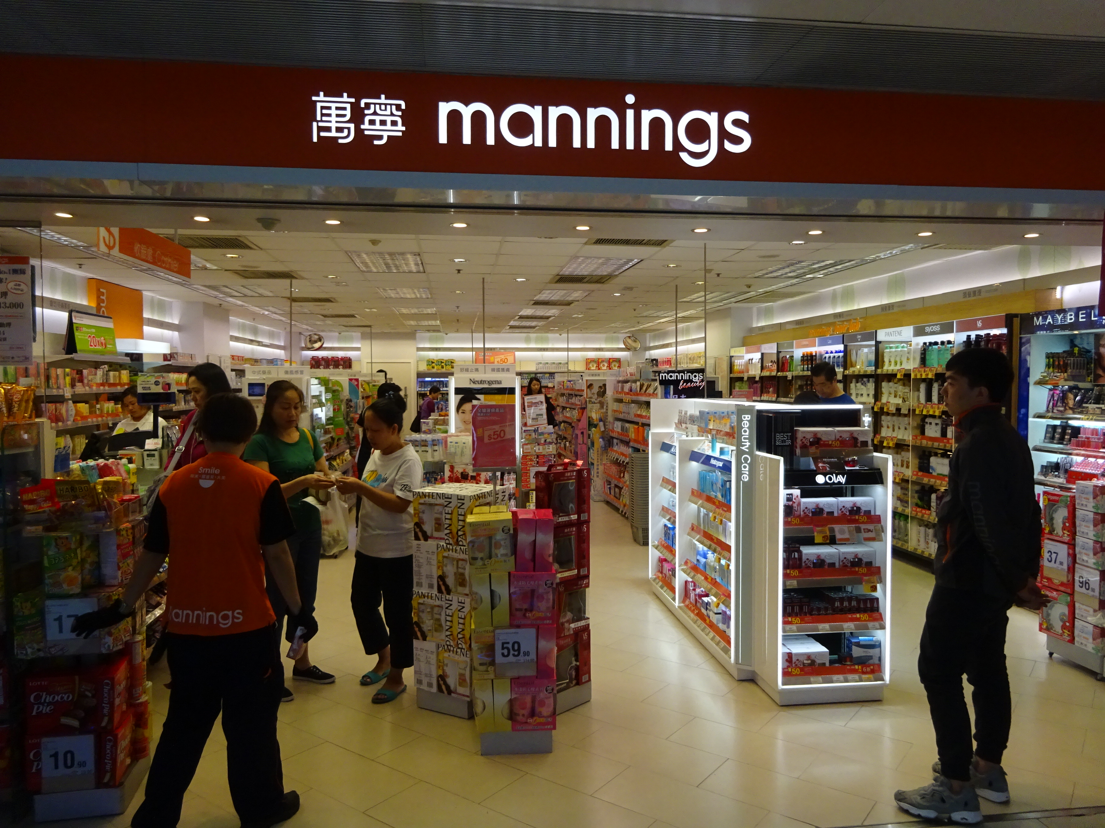 Shop in HK Tung Chung 富東邨 Fu Tung Estate Plaza mall shop in April 2016